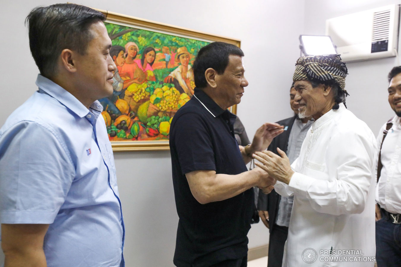 President Rodrigo Roa Duterte shares a light moment with Moro National Liberation Front (MNLF) Chair Nur Misuari during a meeting held at the Matina Enclaves in Davao City on August 22, 2018. Joining the President is Sec. Bong Go of the Office of the Special Assistant to the President. TOTO LOZANO/PRESIDENTIAL PHOTO